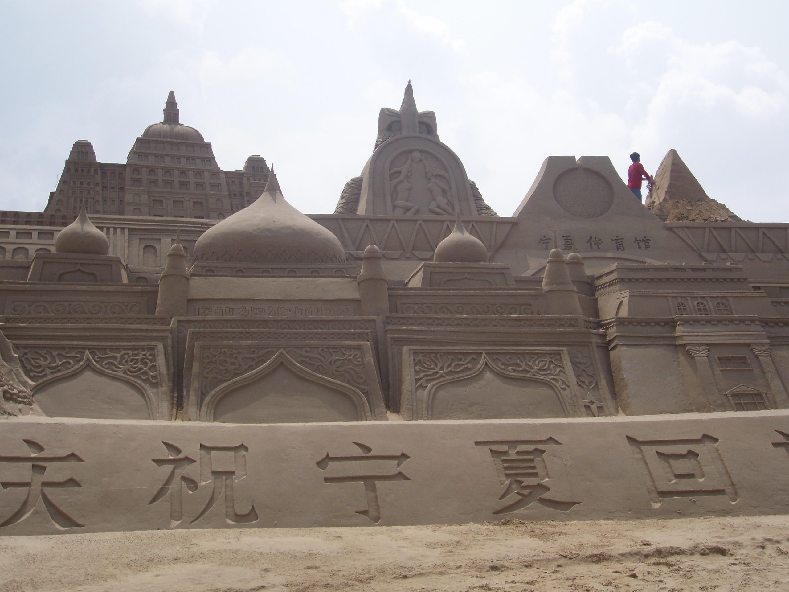 The sand sculptures in Desert Lake scenin spot near Zhongwei, Ningxia, China